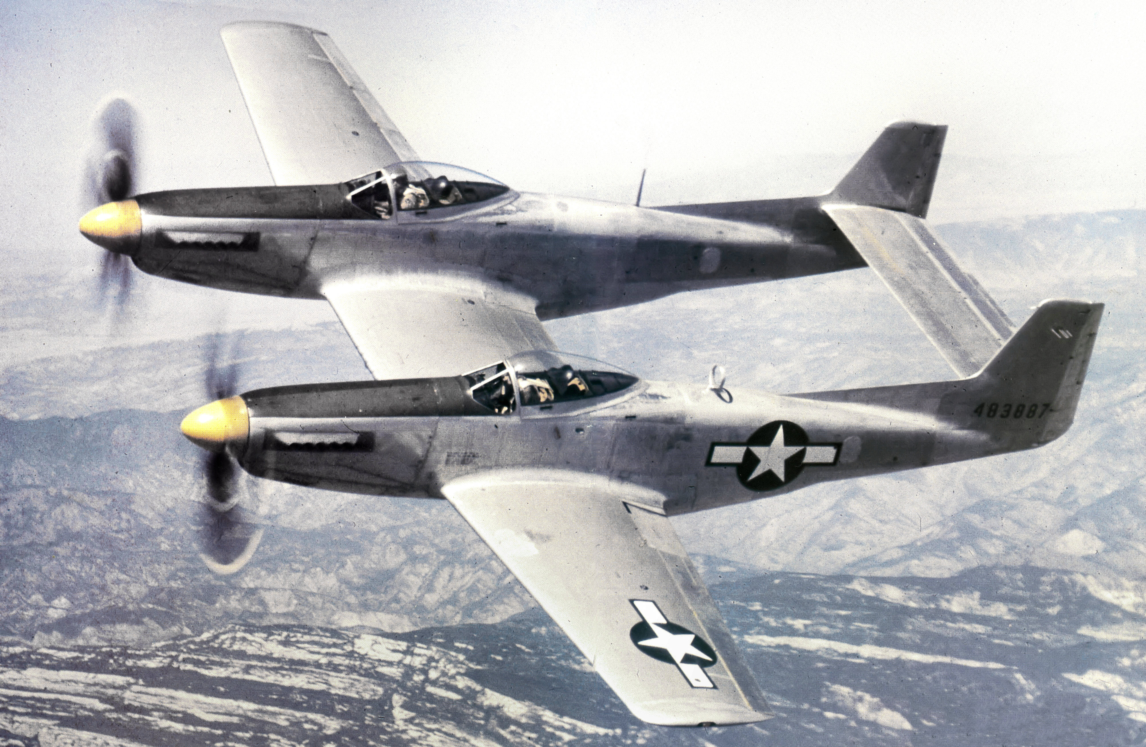 North American XP-82 Twin Mustang 44-83887 on test flight over Sierras, 1945.